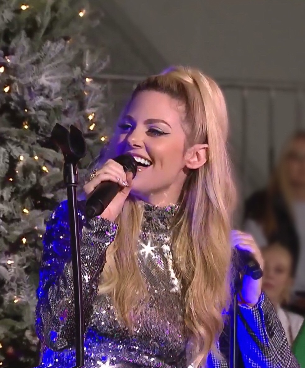 Charity Daw fronting with The Band Of Merrymakers at The 2018 Hollywood Christmas Parade in front of TCL Chinese Theatre (still commonly known as Grauman's Chinese Theatre) on the historic Hollywood Walk of Fame.